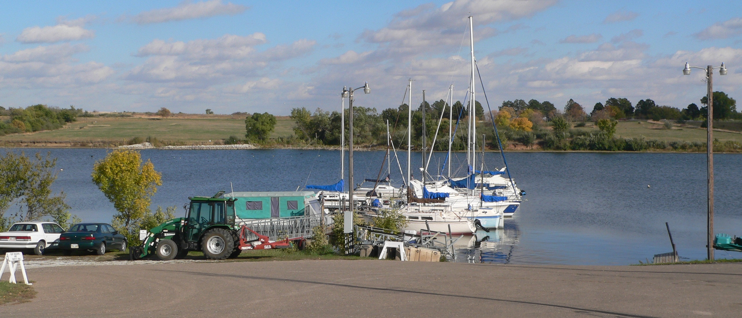 Marina at Branched Oak Lake, located in rural Lancaster County, Nebraska, northwest of Lincoln.